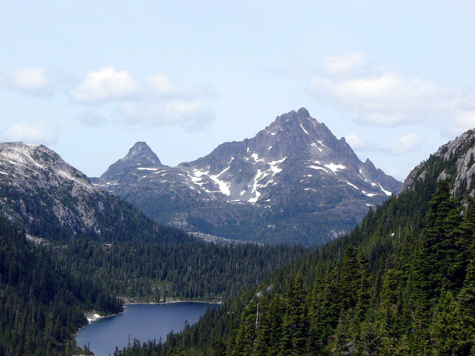 The Golden Hinde. Vancouver Island. Keith Freeman photo August, 2006